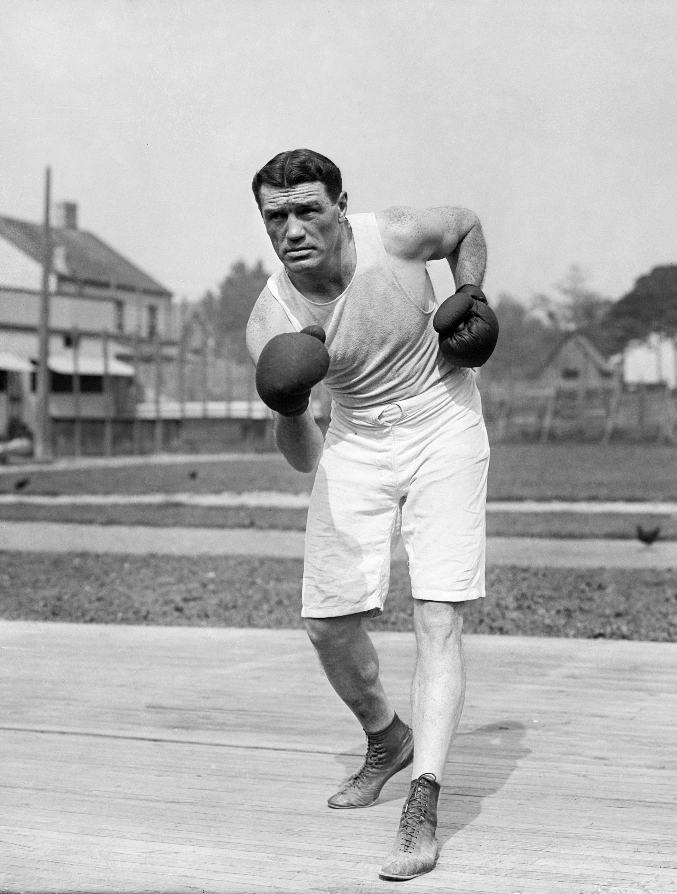 Jack O'Brien (LOC) Bain News Service,, publisher. Philadelphia Jack O'Brien in 1911 [between ca. 1910 and ca. 1915] 1 negative : glass ; 5 x 7 in. or smaller. Notes: Title from unverified data provided by the Bain News Service on the negatives or caption cards. Forms part of: George Grantham Bain Collection (Library of Congress). Subjects: Boxing Format: Glass negatives. Repository: Library of Congress, Prints and Photographs Division, Washington, D.C. 20540 USA, General information about the Bain Collection is available at Persistent URL: Call Number: LC-B2- 2285-1